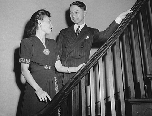 Minister and Madam Mom Rajawongs Seni Pramoj who gave a reception at the Thai Legation in celebration of the nineteenth birthday of King Ananda of Thailand, who is currently residing in Switzerland.